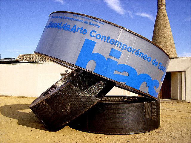 Contemporary Sculpture in front of the Centro Andaluz de Arte Contemporaneo in Sevilla, Spain. Part of Bienal de Arte Contemporaneo de Sevilla (International Biennal of Contemporary Art of Sevilla) Biacs3